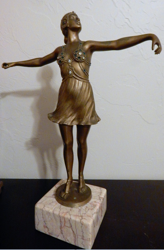 A circa 1920 bronze sculpture by German artist Otto Schmidt-Hofer. The statue is entitled "The Entertainer".